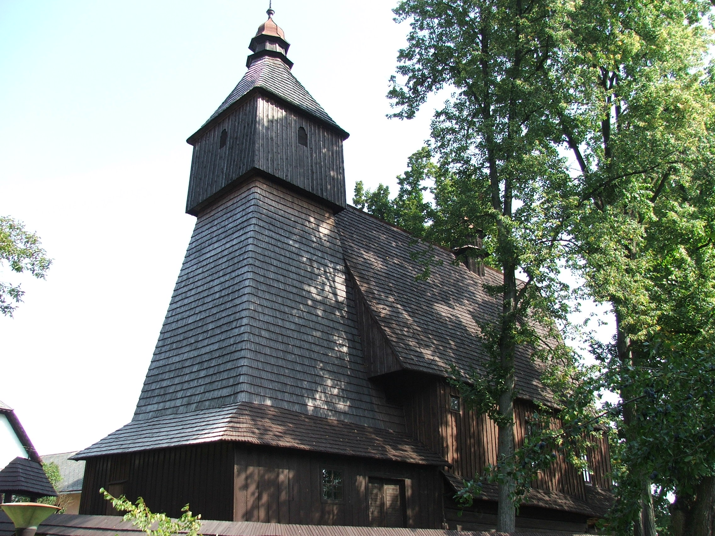 One of few wooden Roman-Catholic Churches in Eastern Slovakia (most are Greek Catholic) near Bardejov in Hervartov